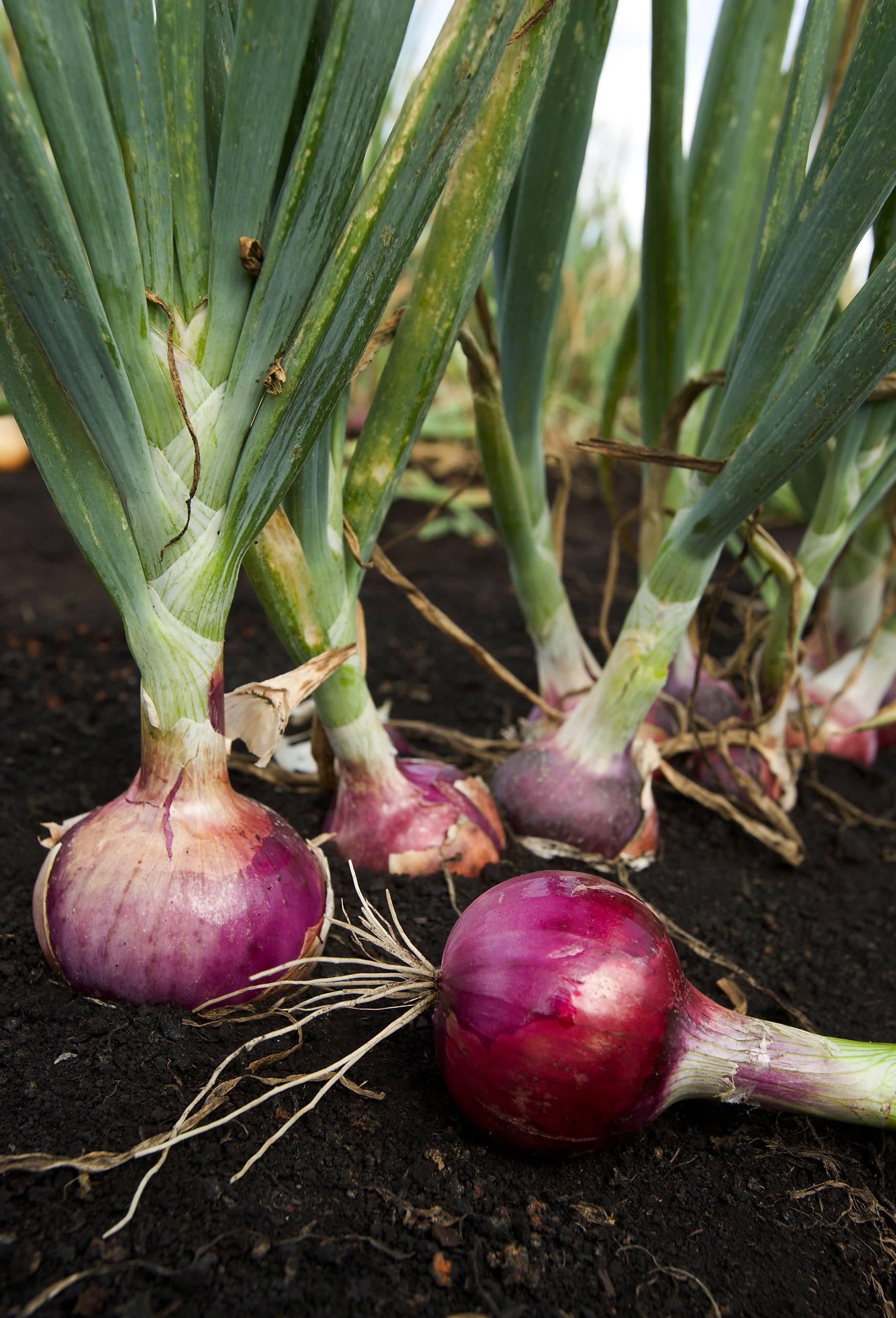 Pungent red onions are nutritional wonders, containing three different groups of health-enhancing compounds: thiosulfinates, fructans, and flavonoids. ARS scientists in Madison, Wisconsin, are working to develop onions that are milder in taste but still chock-full of heart-healthy nutrients.